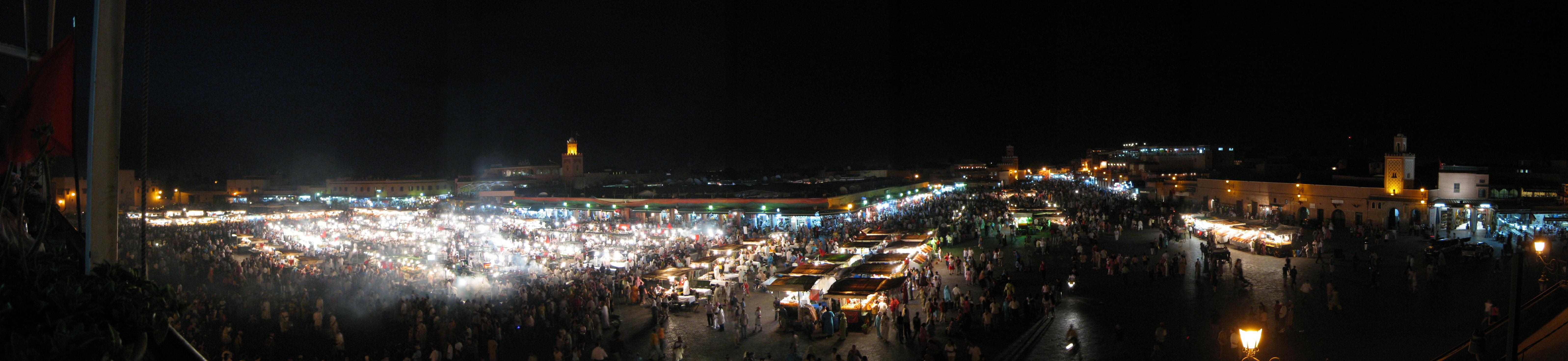 Marrakech Jamâa F'na Place by night